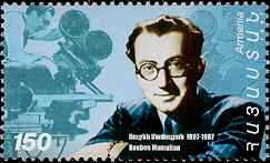 Stamp of Armenia